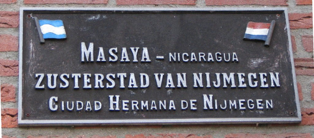 Cropped, resized and slightly tilted version of original (see other versions)